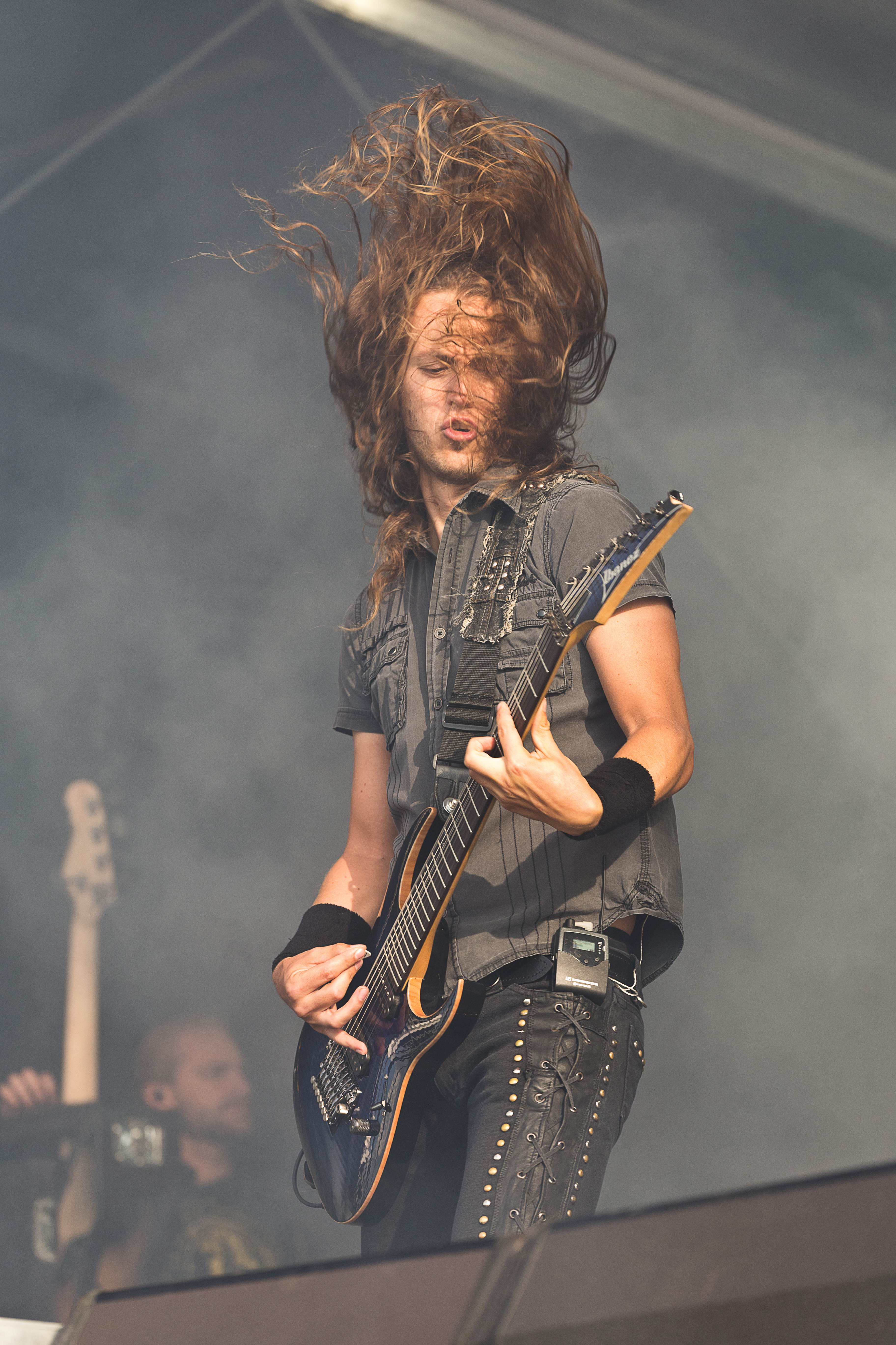 The Dutch symphonic metal band Epica at the Rockharz Open Air 2015 in Ballenstedt/Germany.